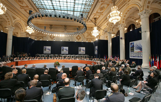 The North Atlantic Council Summit gets under way, Thursday, April 3, 2008, in Bucharest